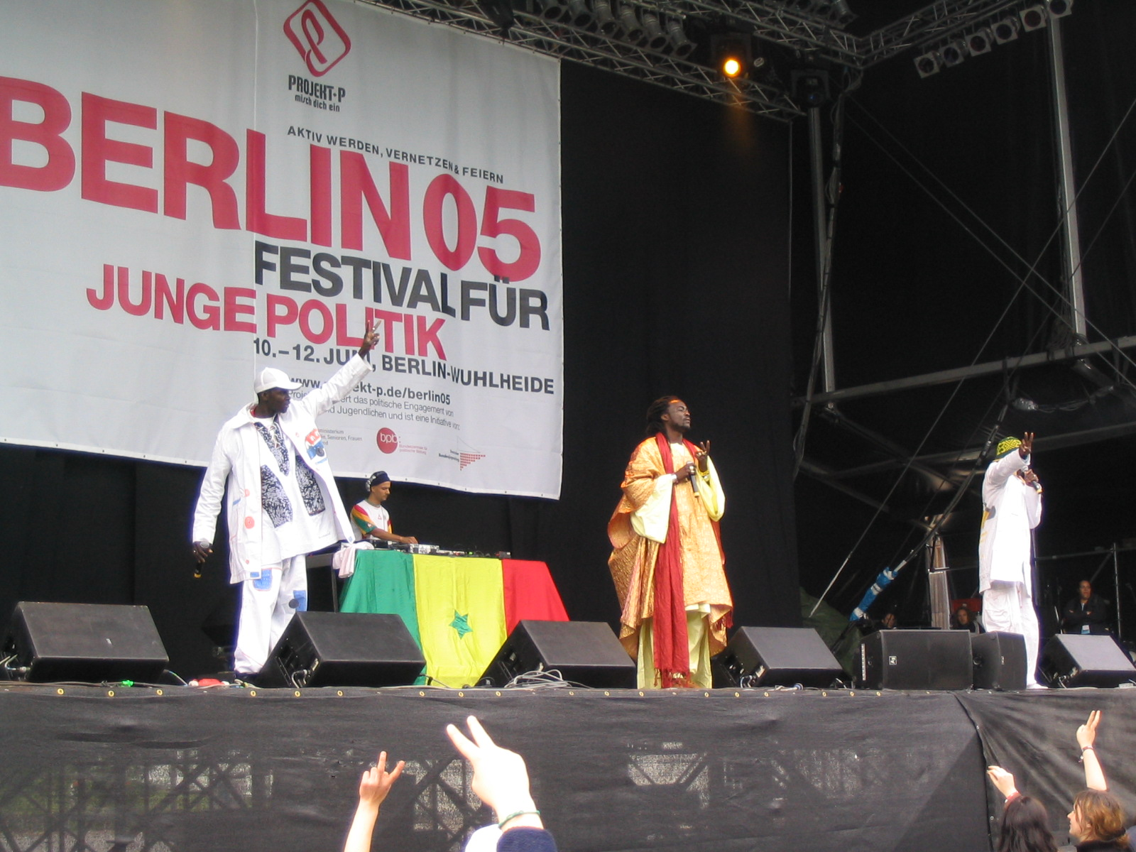 Daara J at the Berlin 05 festival